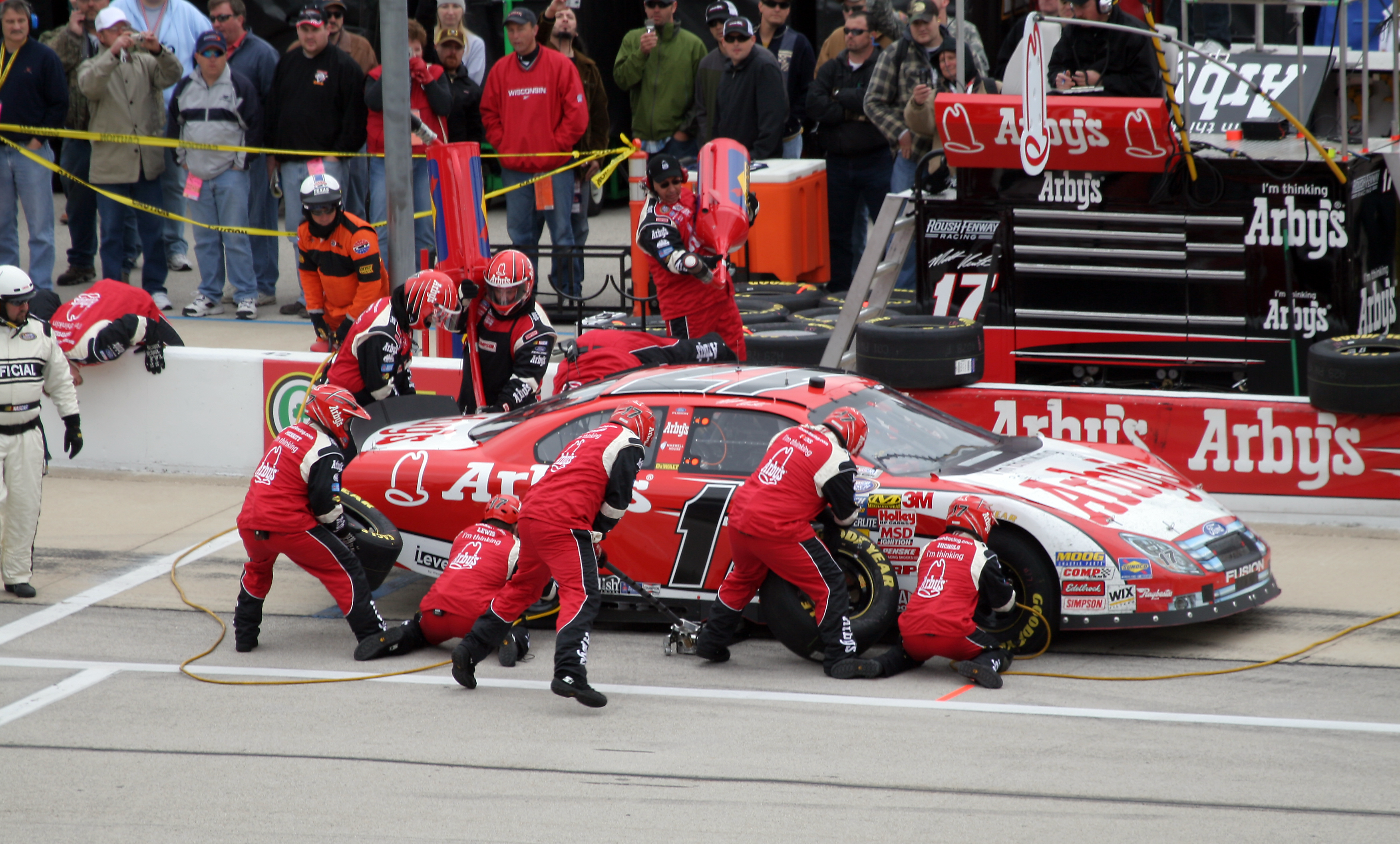 The joke in this title is exclusively for members of the Landshark Crew. Everyone else may just appreciate the neat picture of a pit crew doing its job